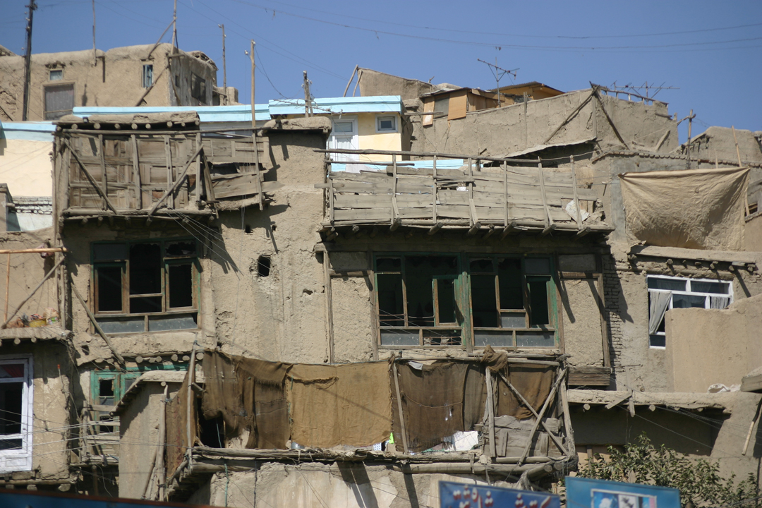 Some areas of Kabul City - even right in the city-center - resemble Brazilian favelas because of poor city planning.